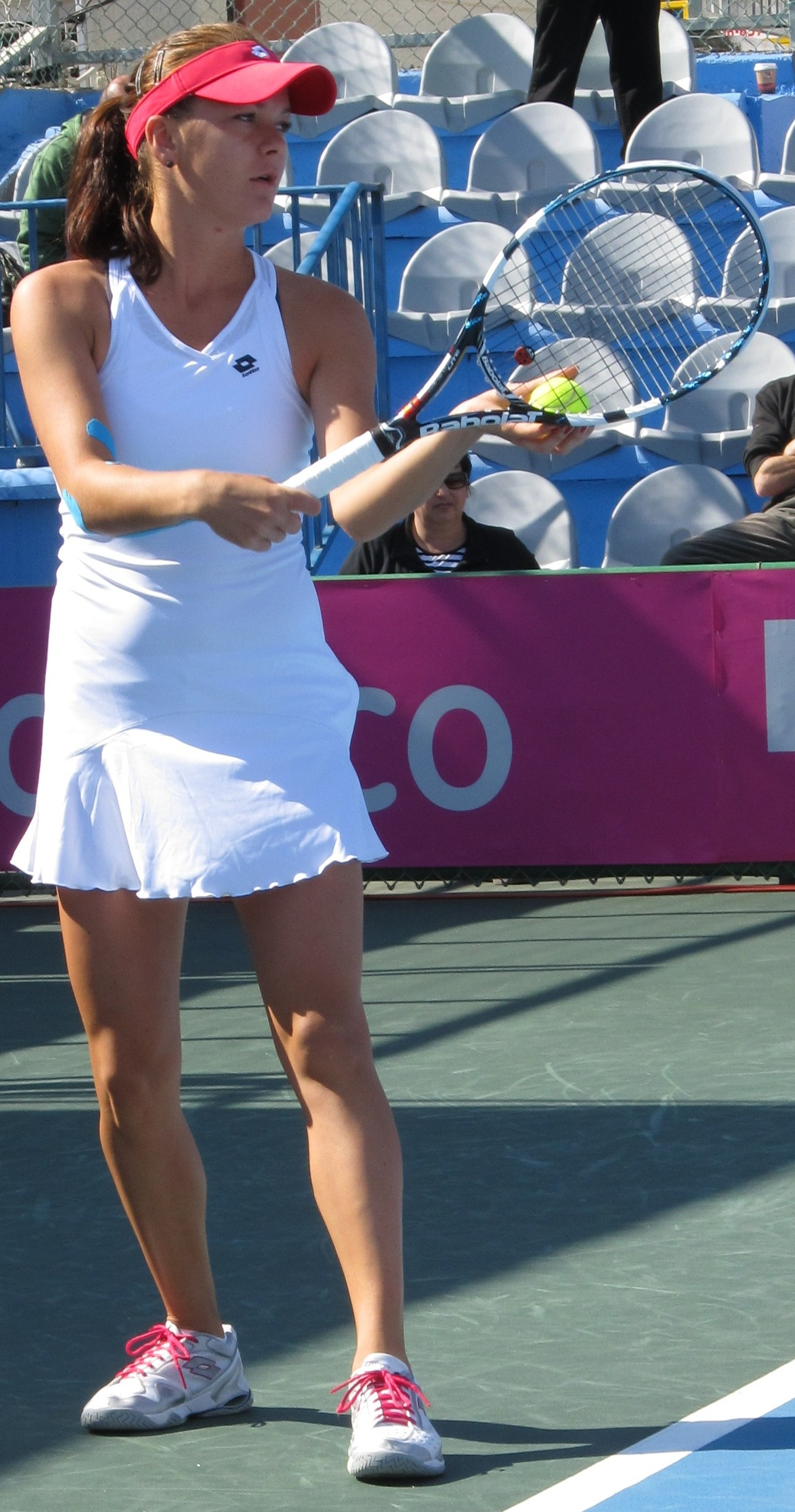 The tennis player Agnieszka Radwańska of Poland during her match against Petra Martić of Croatia in the 2nd day of Fed Cup Group I 2012 Europe/ Africa in Eilat, Israel.